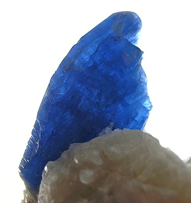 Afghanite Locality: Sar-e-Sang District, Koksha Valley (Kokscha; Kokcha), Badakhshan (Badakshan; Badahsan) Province, Afghanistan (Locality at ) Size: miniature, 3.4 x 3.1 x 2.6 cm Afghanite on Marble Named for its host country, and rare in discrete crystals elsewhere, afghanite at Sar e Sang, reaches its zenith for the species. A 2.5 cm tall, rich blue, translucent, lustrous, afghanite crystal is nicely perched on white marble. It is still a rare member of the feldspathoid group of minerals. THE COLOR IS TOPS on this one, and with a rare translucency!